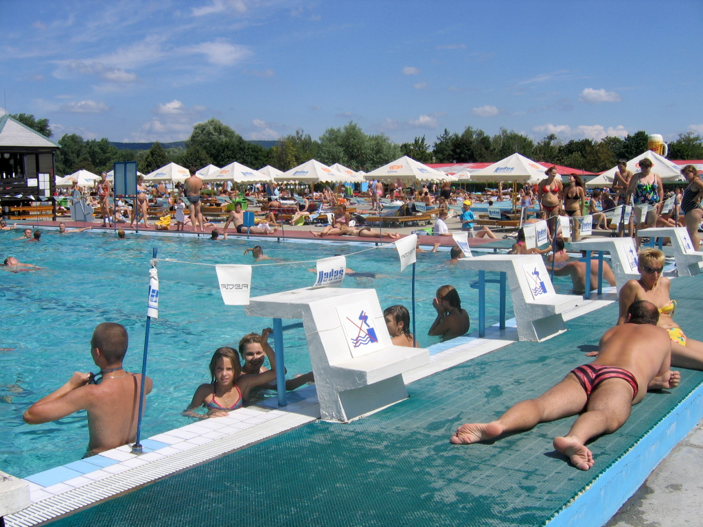 Open air Spa Vadaš in Štúrovo (Slovakia)